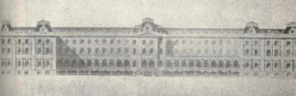 Facade of the TCI in 1915